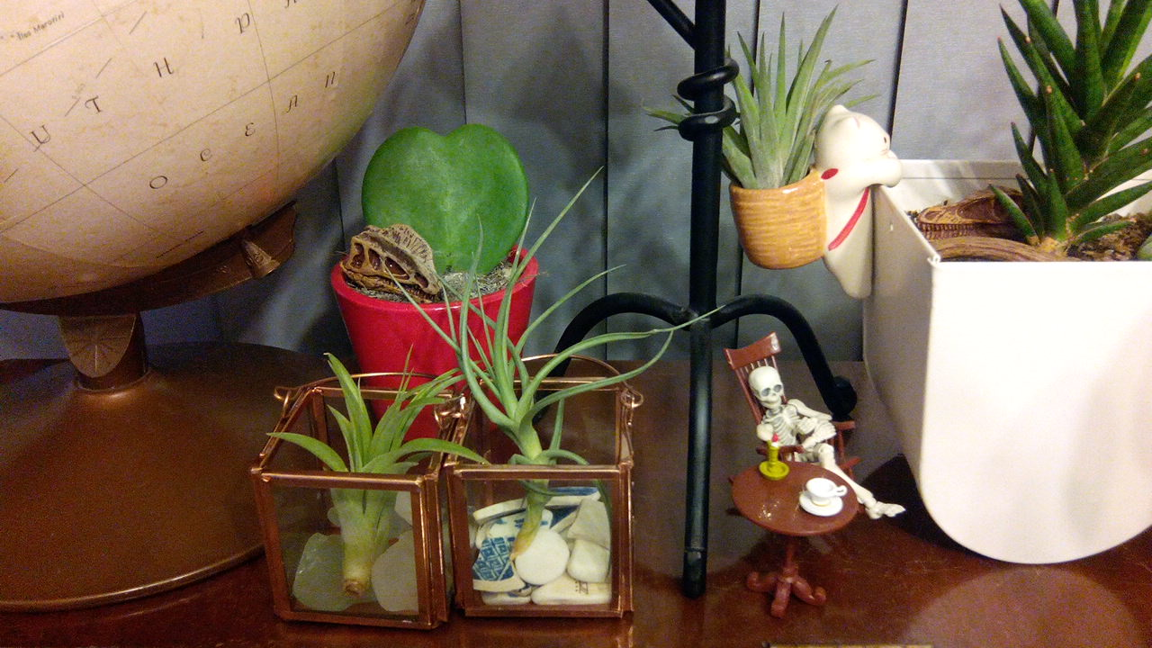 A small collection of air plants (Tillandsia)